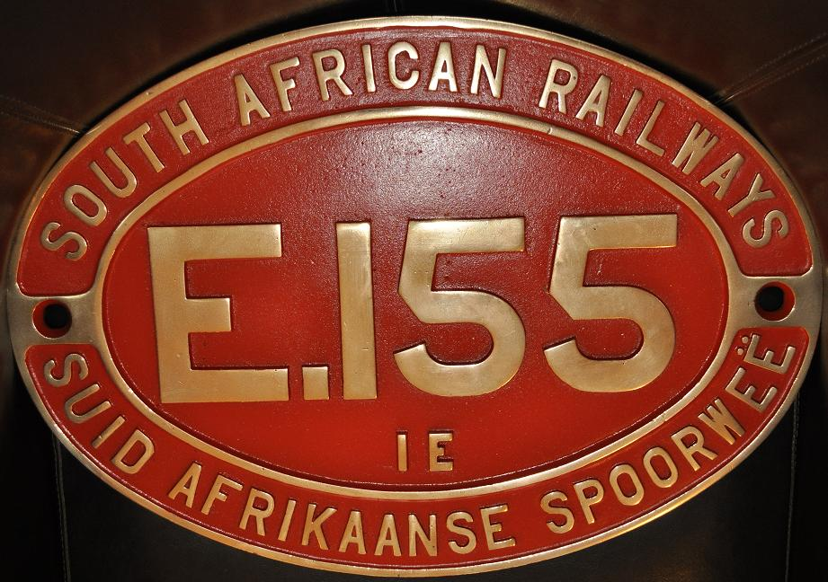 A South African Railway 1E Number Plate - E155